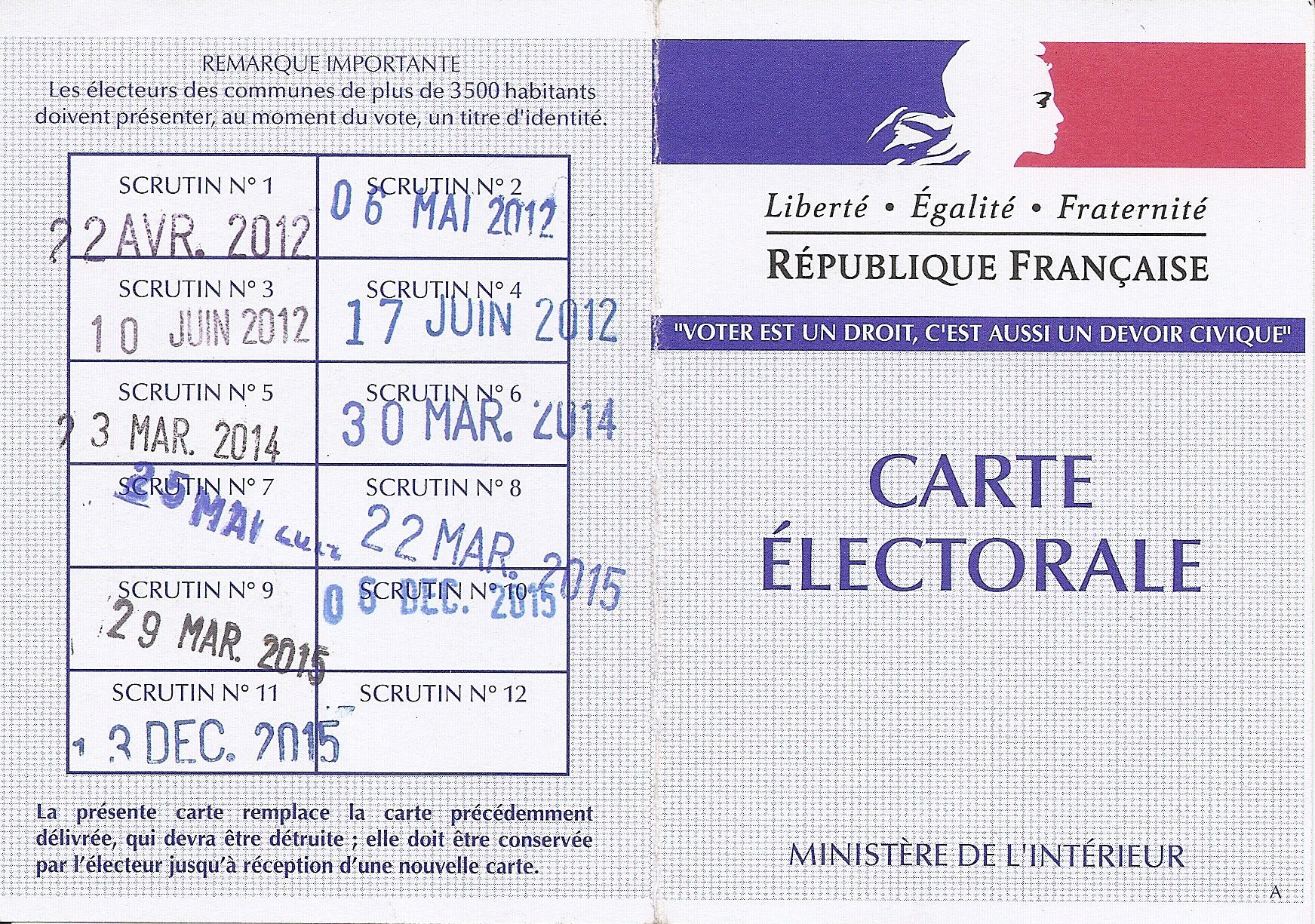 Date stamped voter registration card in France (2012-2015).